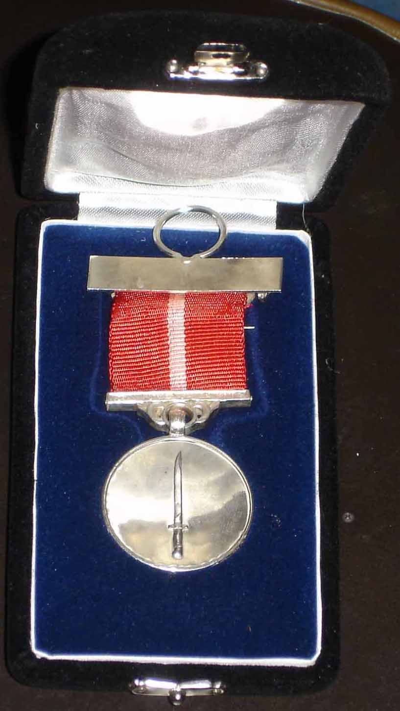 A View of Sena Medal